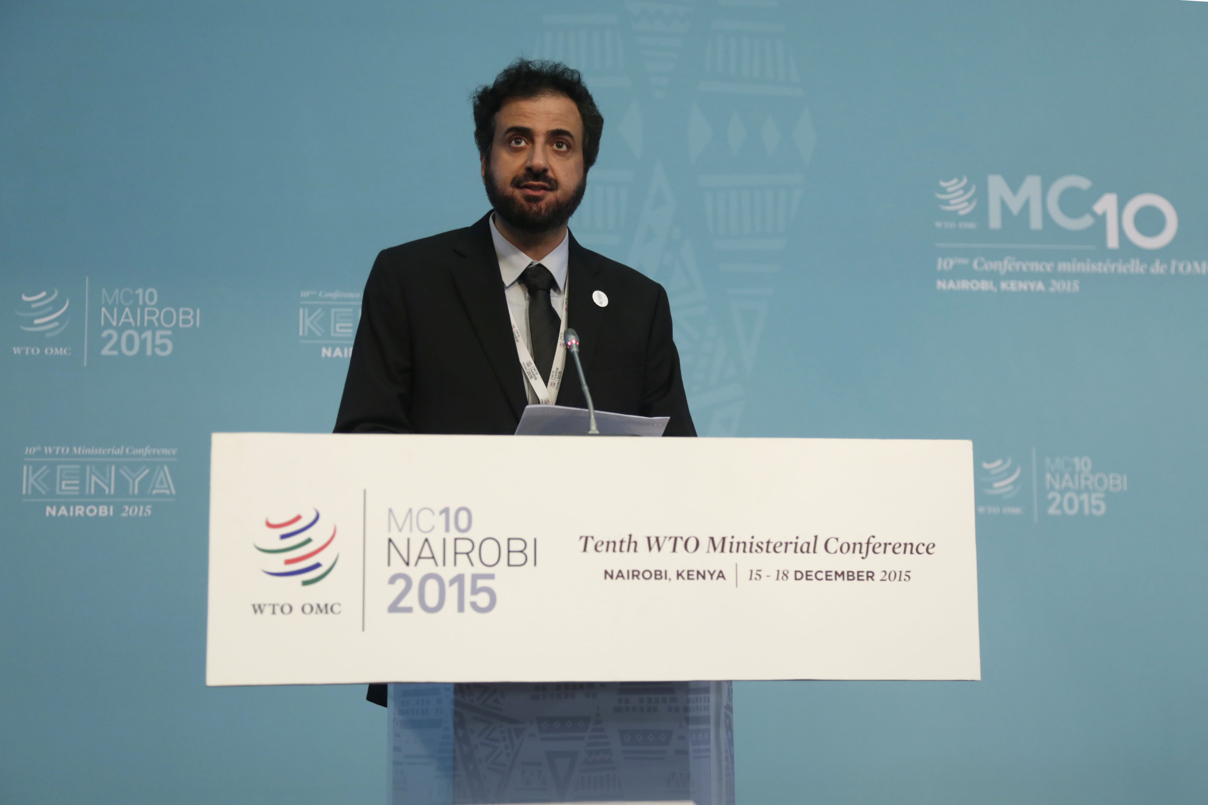 Day 2 of the 10th WTO Ministerial Conference, Nairobi, 16 December 2015. Photos may be reproduced provided attribution is given to the WTO and the WTO is informed. Photos: © WTO. Courtesy of Admedia Communication.